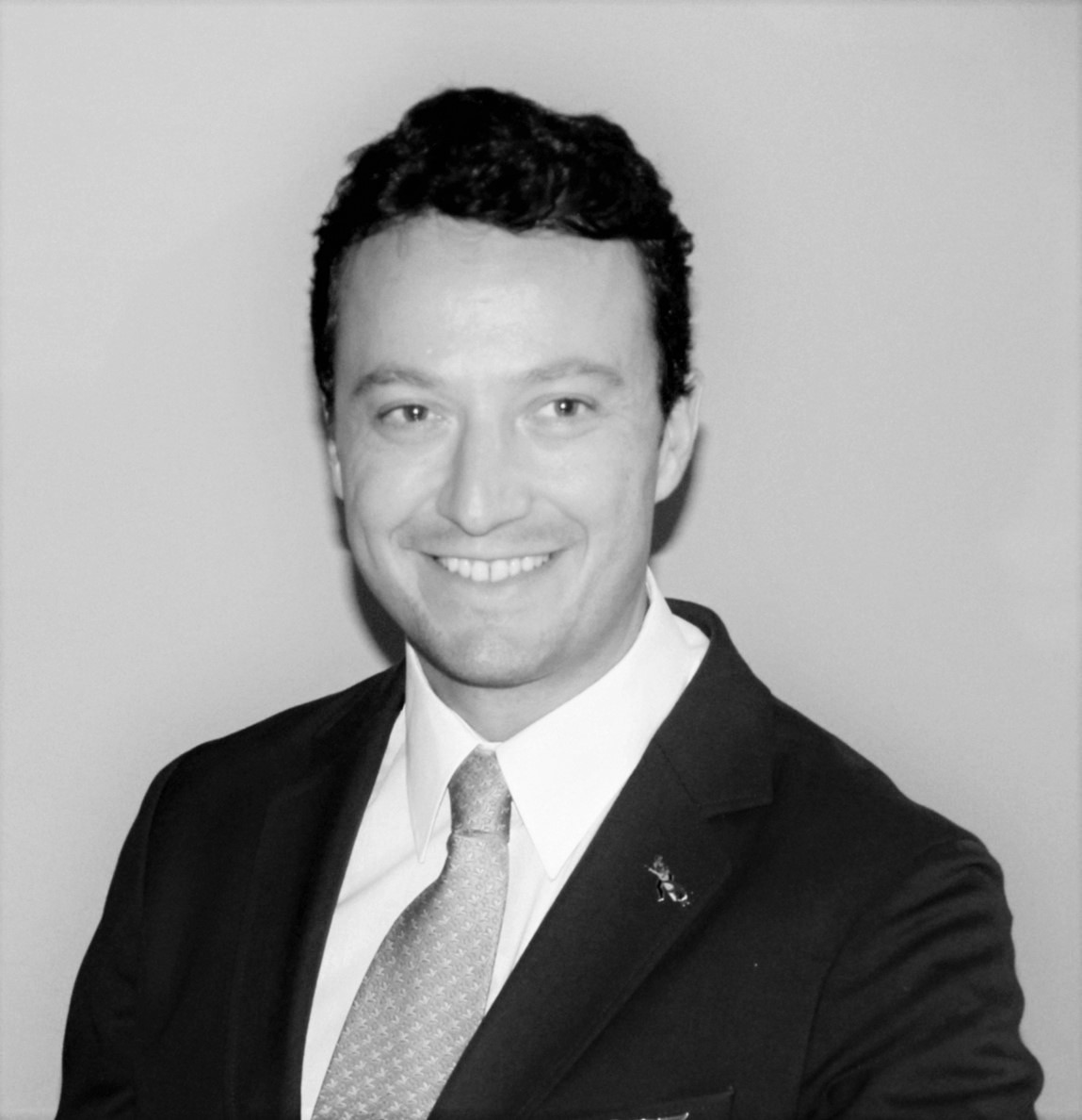 IDEA Society Founder and Chaiman Dr. Stefan Stoev